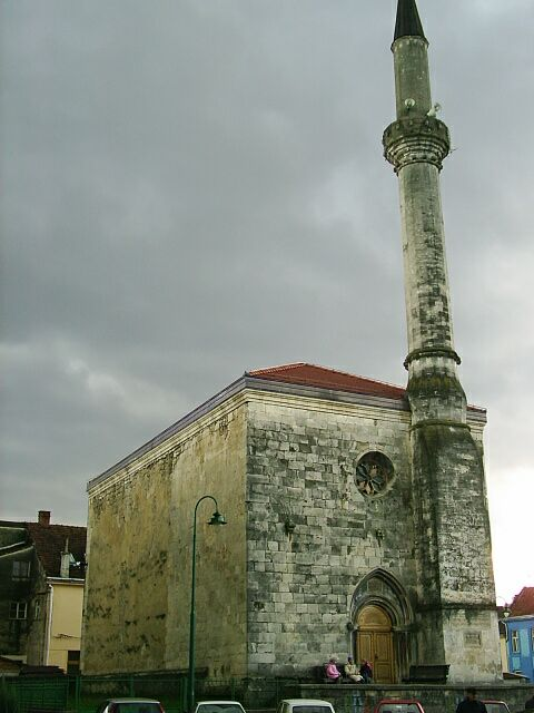 Fethija mosque - formerly a roman catholic church - in Bihać, BiH